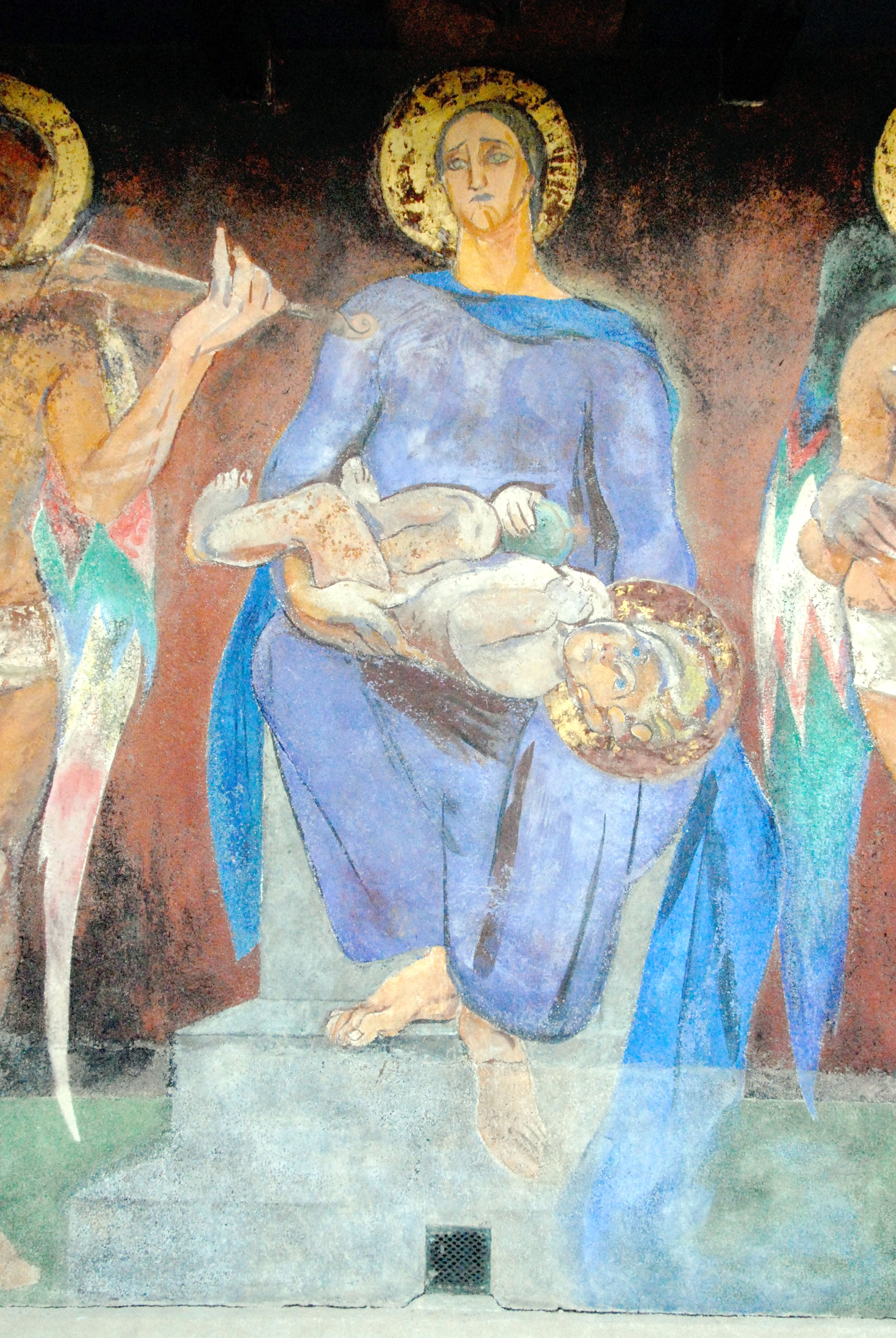 Cutout from the fresco "Madonna with child, surrounded by music playing angels“, a monumental work by Anton Kolig, painted 1927-29 on the southern wall of the Roman Catholic parish church Saint Kanzian at Saak, market town Noetsch, district Villach Land, Carinthia, Austria, European Union